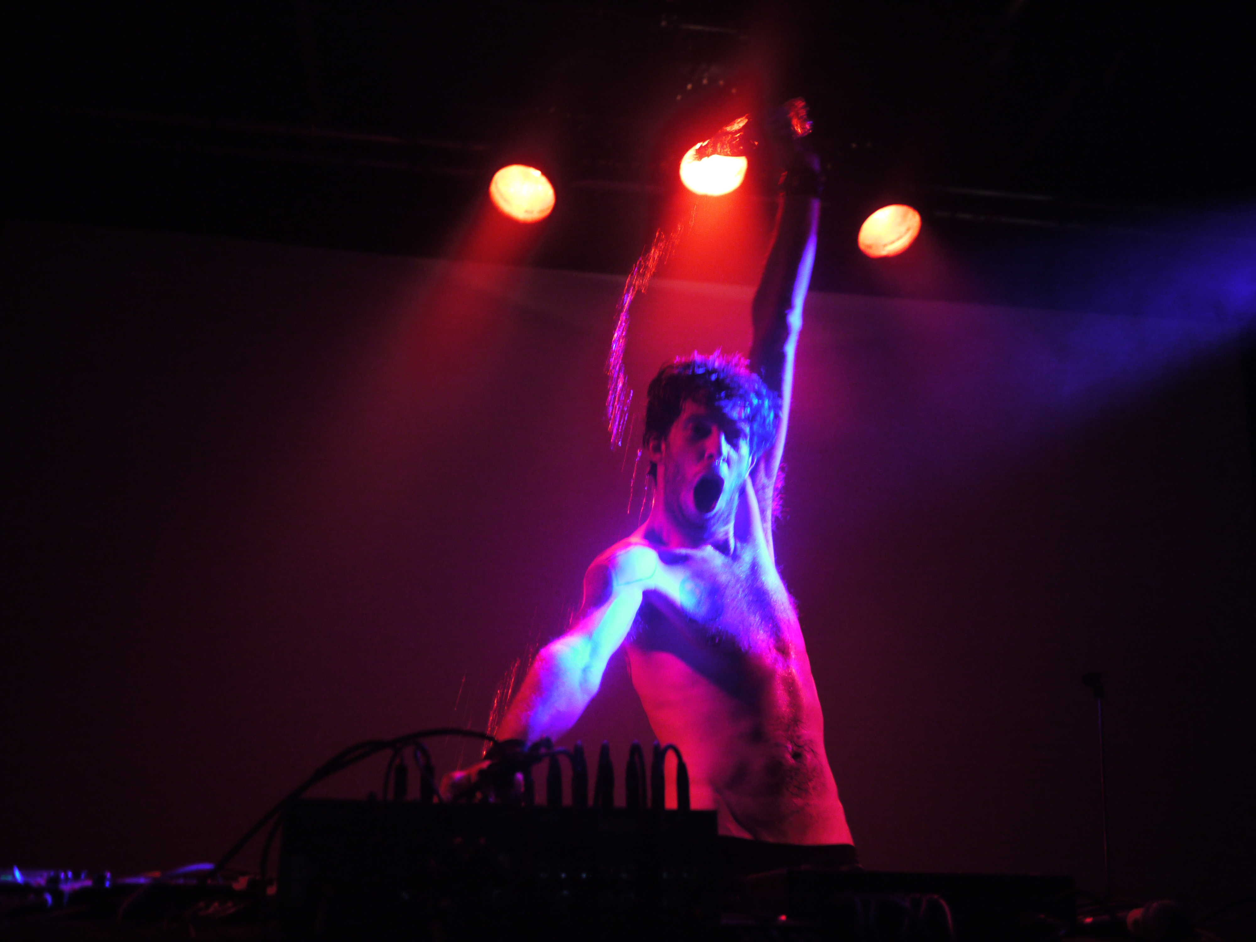 T.Raumschmiere performing live at Mute Short Circuit, Roundhouse, London, May 13 2011.